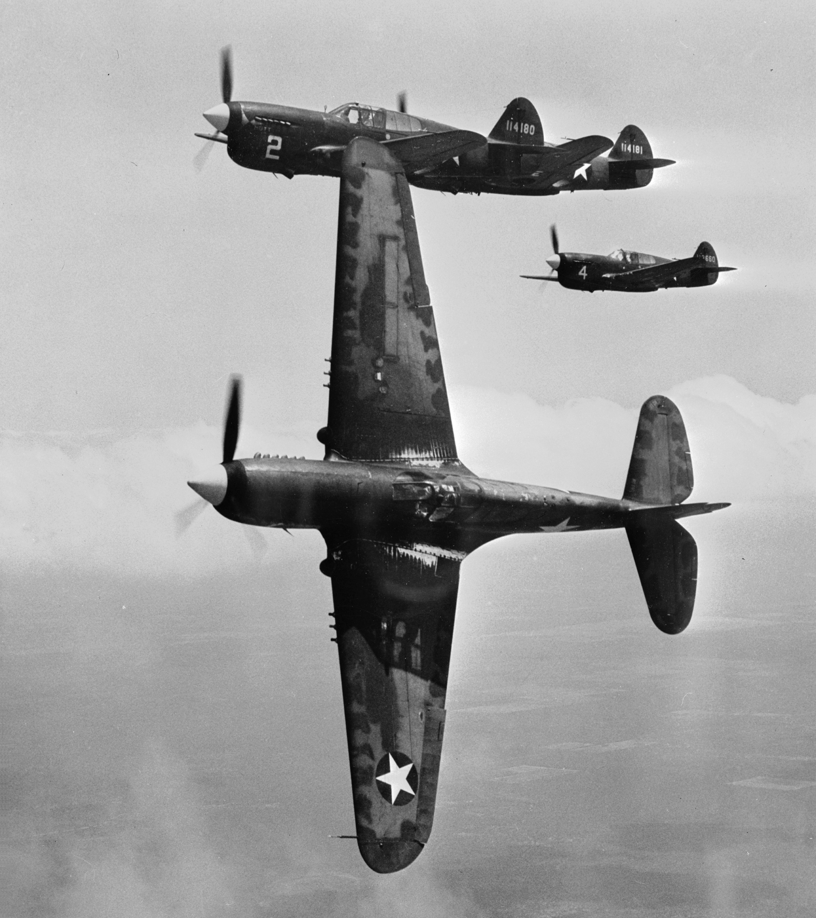 U.S. Army Air Force Curtiss P-40F Warhawk fighters on a training flight out of Moore Field, near Mission, Texas (USA), in 1943. The lead aircraft in a formation of P-40's is peeling off for an "attack" in a practice flight at the Army Air Forces advanced flying school. Selected aviation cadets were given transition training in these fighter planes before receiving their pilot's wings.